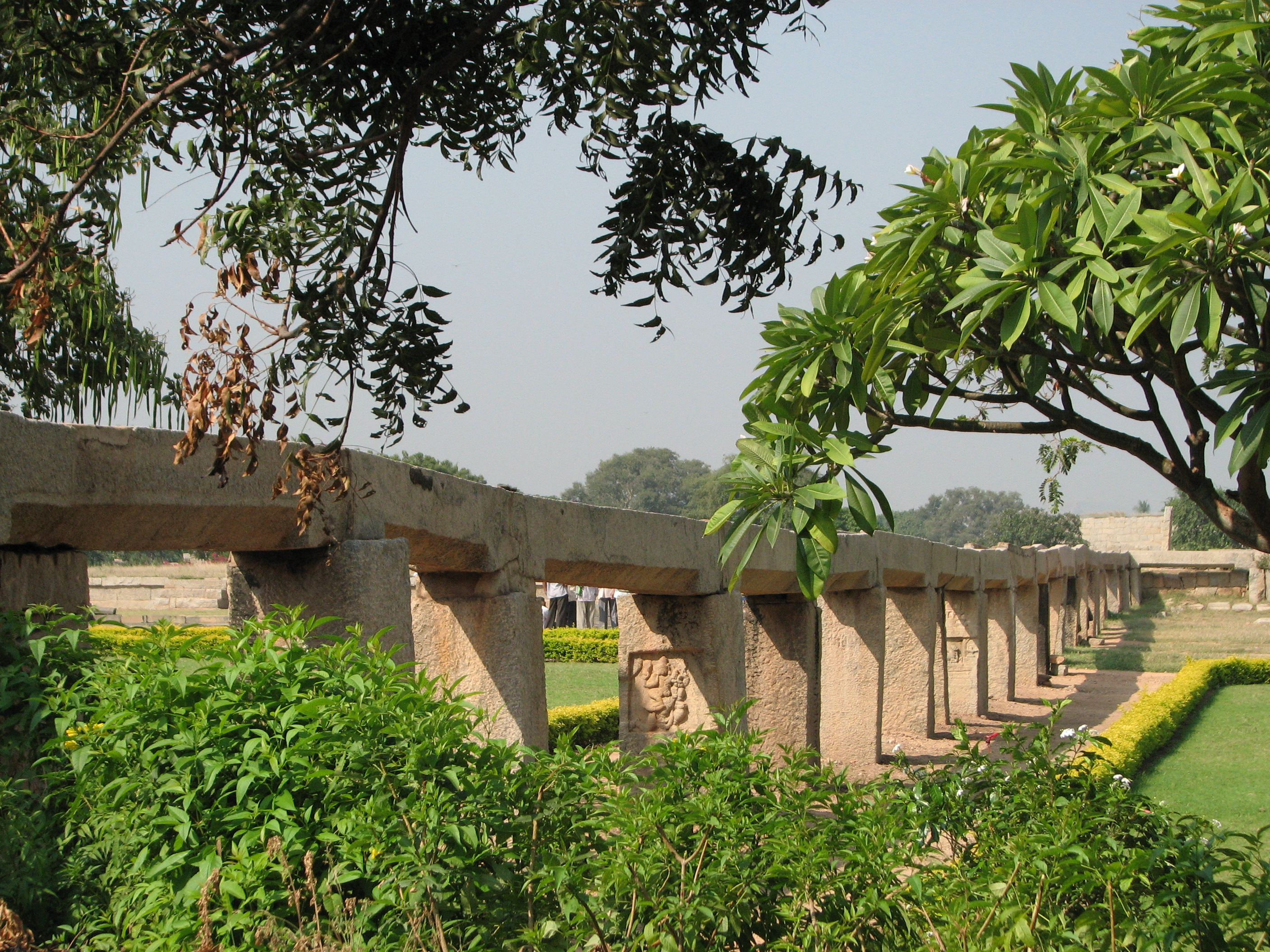 Ancient aqueduct at Hampi, Karnataka, India